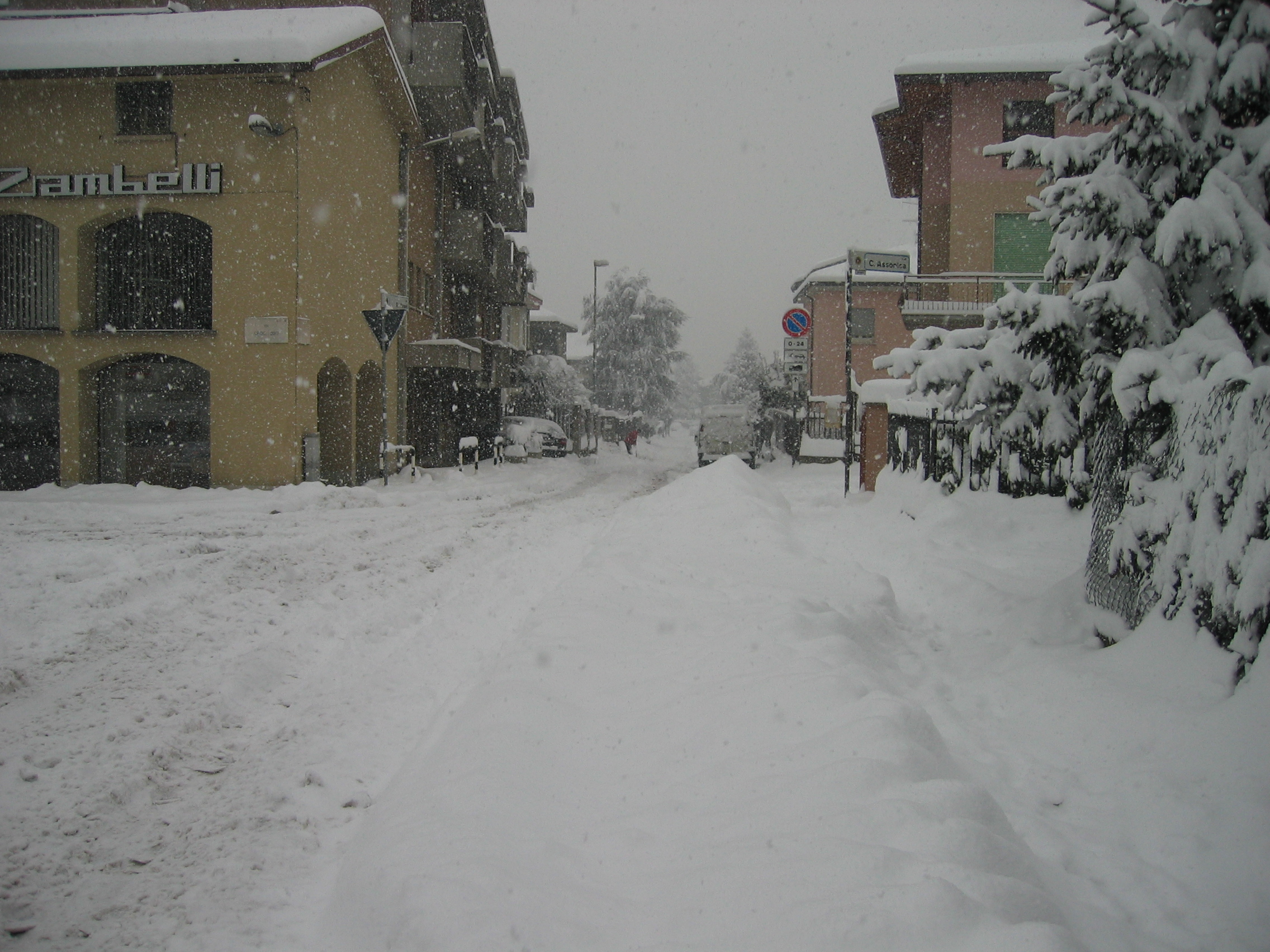 street of Valtesse, Bergamo, Italy under snow